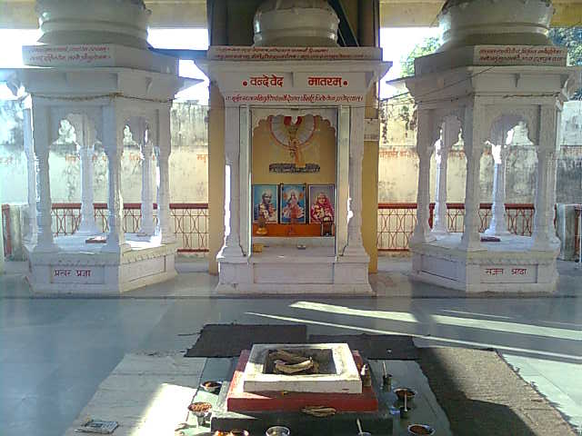 Gayatri Shakti Peeth